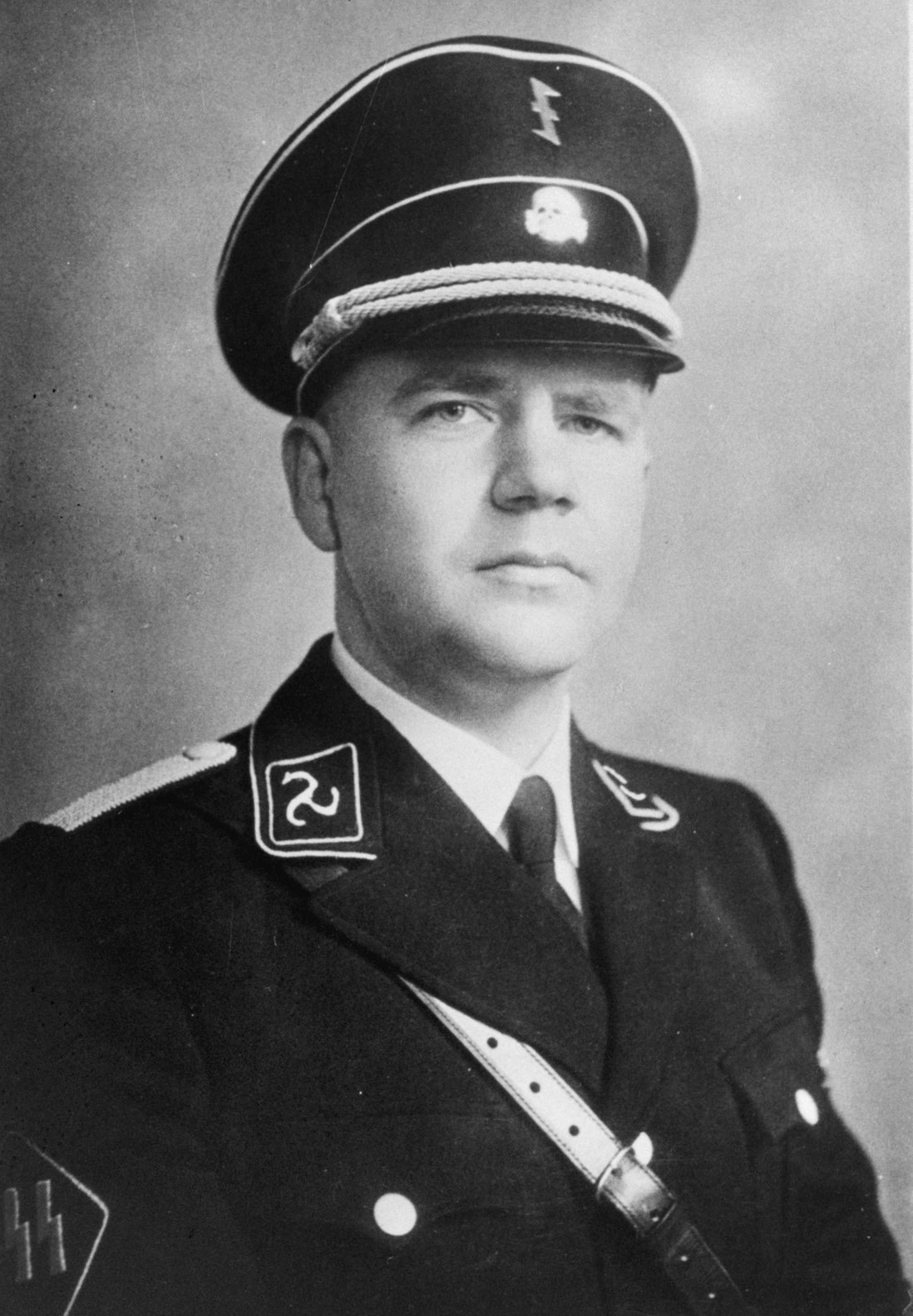 J. H. Feldmeijer, stamboeknr. 479. Voorman van de Nederlandse SS [this is the original image caption, which may be erroneous, biased, obsolete or politically extreme. Factual corrections and alternative descriptions are encouraged separately from the original description.]